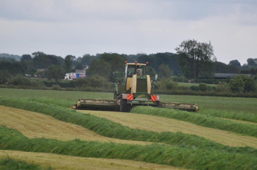 Krone BiG M II self-propelled high-capacity mower-conditioner, second crop (grass) silage harvesting in July 2011, Co. Meath, Ireland. – Machine data: 3 MoCo decks with a total of 9.0–9.72 m cutting width, 245 kW/333 hp max. engine power (ECE R24), 4wd, 40 km/h, 8.06 m transport length, 2.99 m transport width, 3.99 m height, ca. 13.5 t weight.